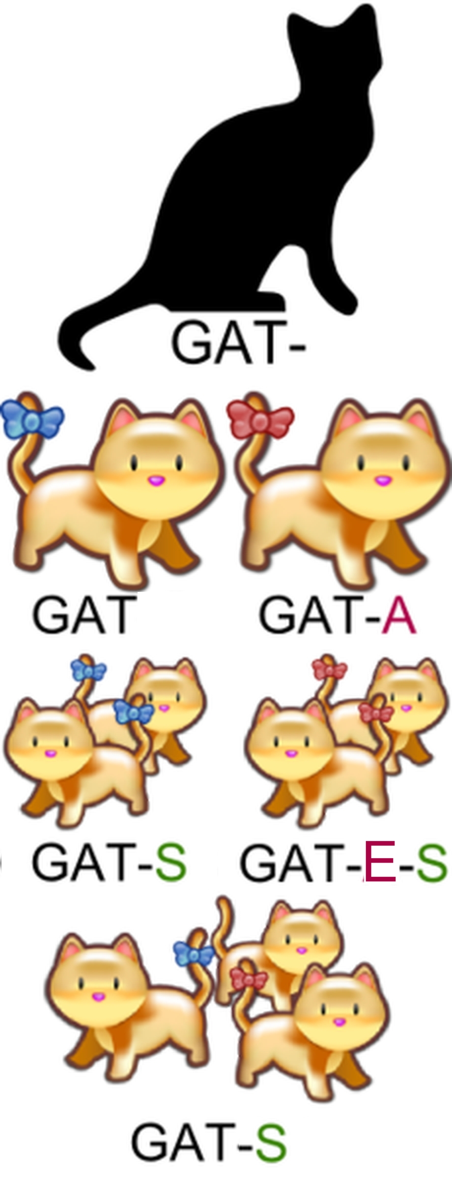 Example of flexions in catalan of word gat. JPG Version PG de 920px